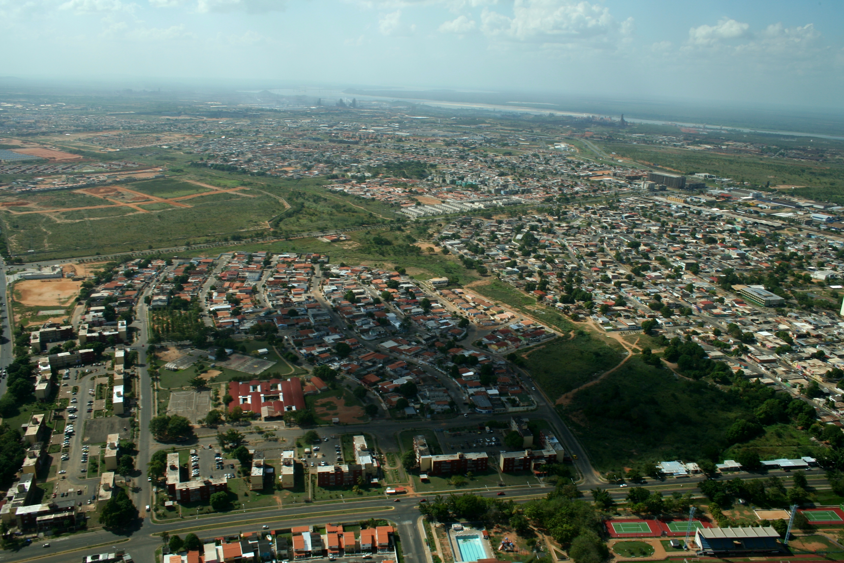 Aerial view of Ciudad Guayana, Venezuela, with the Orinoco river in the background. The city is a merger of two cities, Puerto Ordaz, to the west, and San Felix, to the east. Here, one can see Puerto Ordaz.